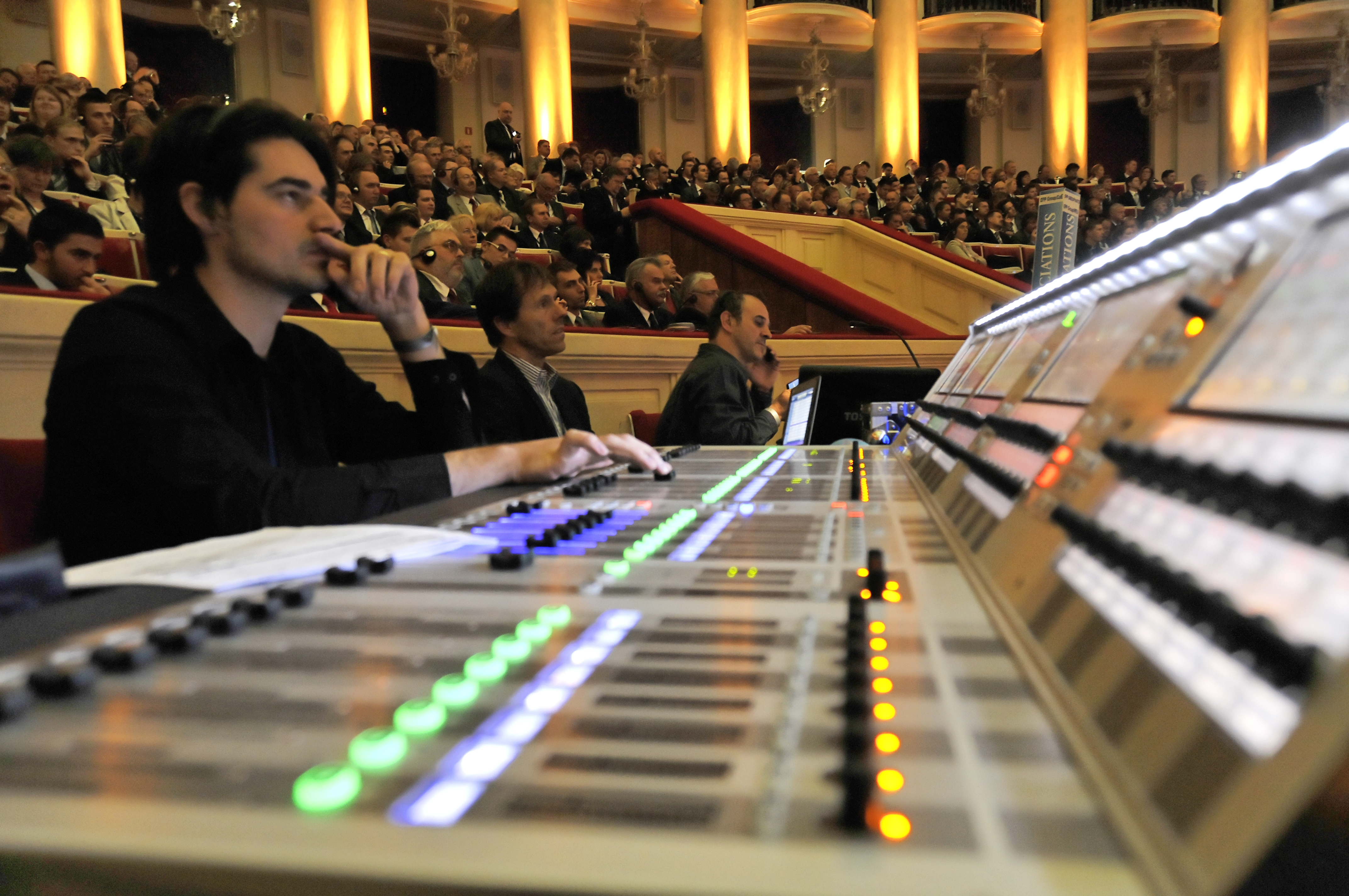 EPP Congress Warsaw